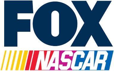 Logo for Fox NASCAR starting with the 2015 season.